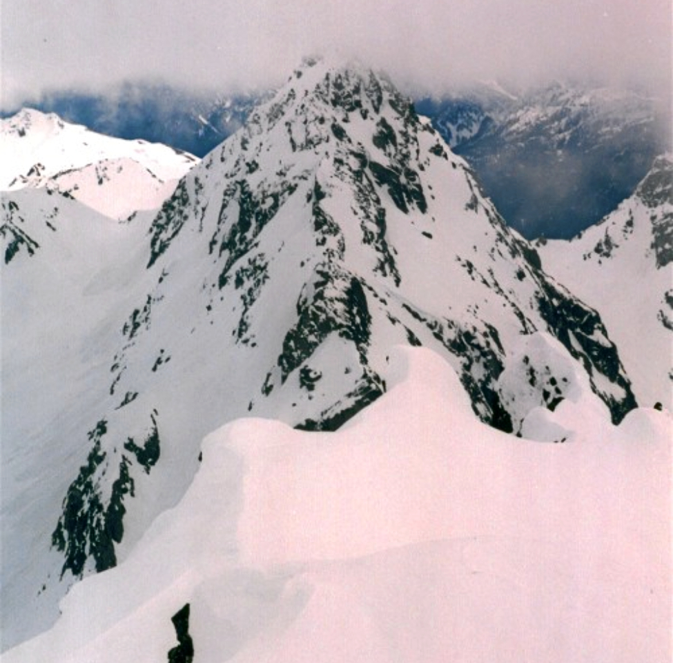 Mount Mystery seen from the summit of Mount Deception. Olympic National Park. April 1998